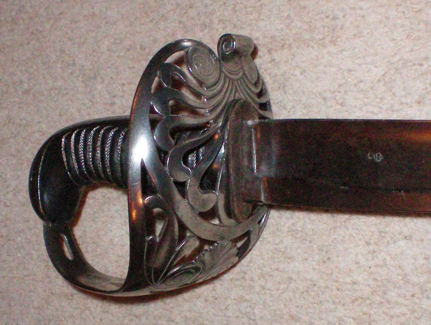 Digital image of Pattern 1796 Heavy Cavalry Officer Sword